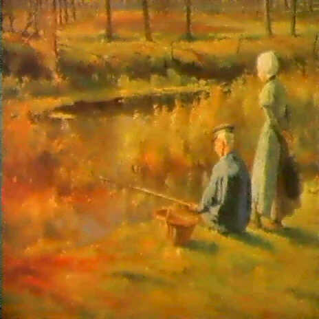 De visser. Le Pecheur. (The Fisherman). Signed, oil on canvas, 48 x 60 cm.